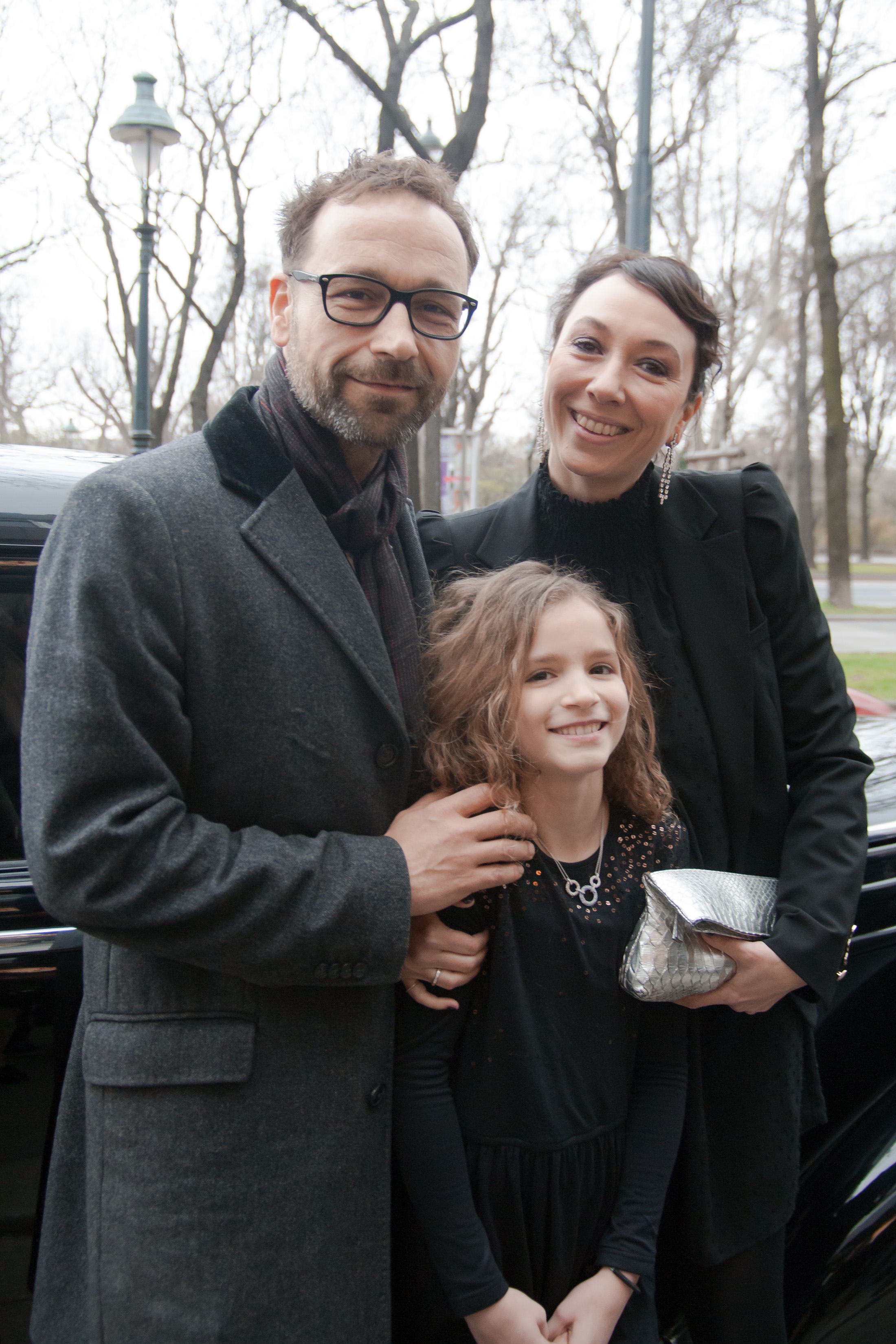 Gerald Votava, Zita Gaier and Ursula Strauss at the Vienna premiere of Fly Away Home at Gartenbaukino.